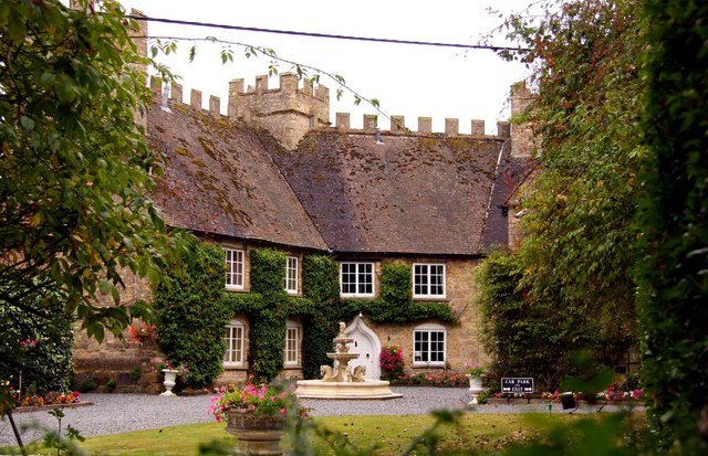 Stowe Castle Farm